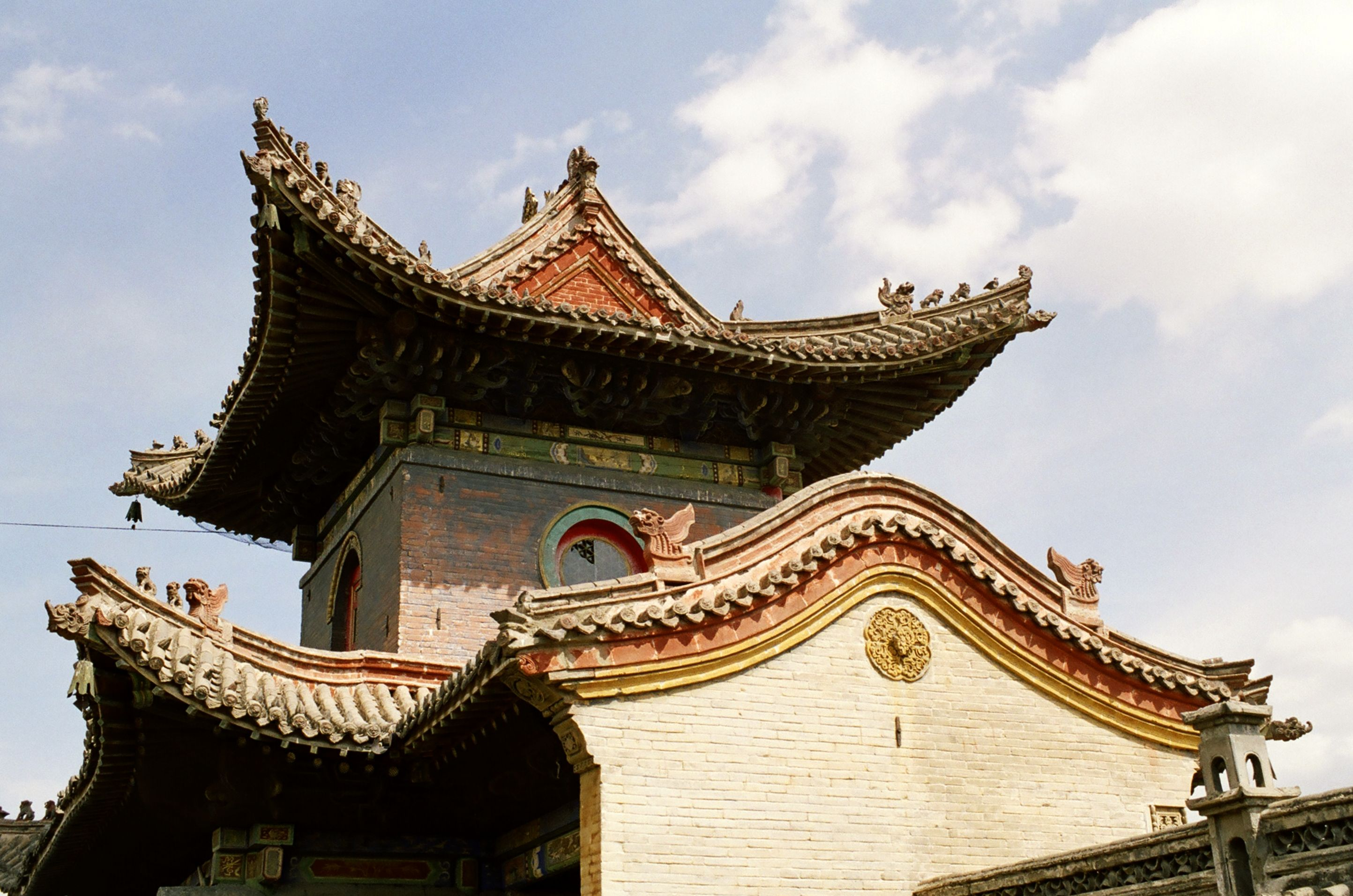 Choijin Lama Monastery, Ulan Bator, Mongolia